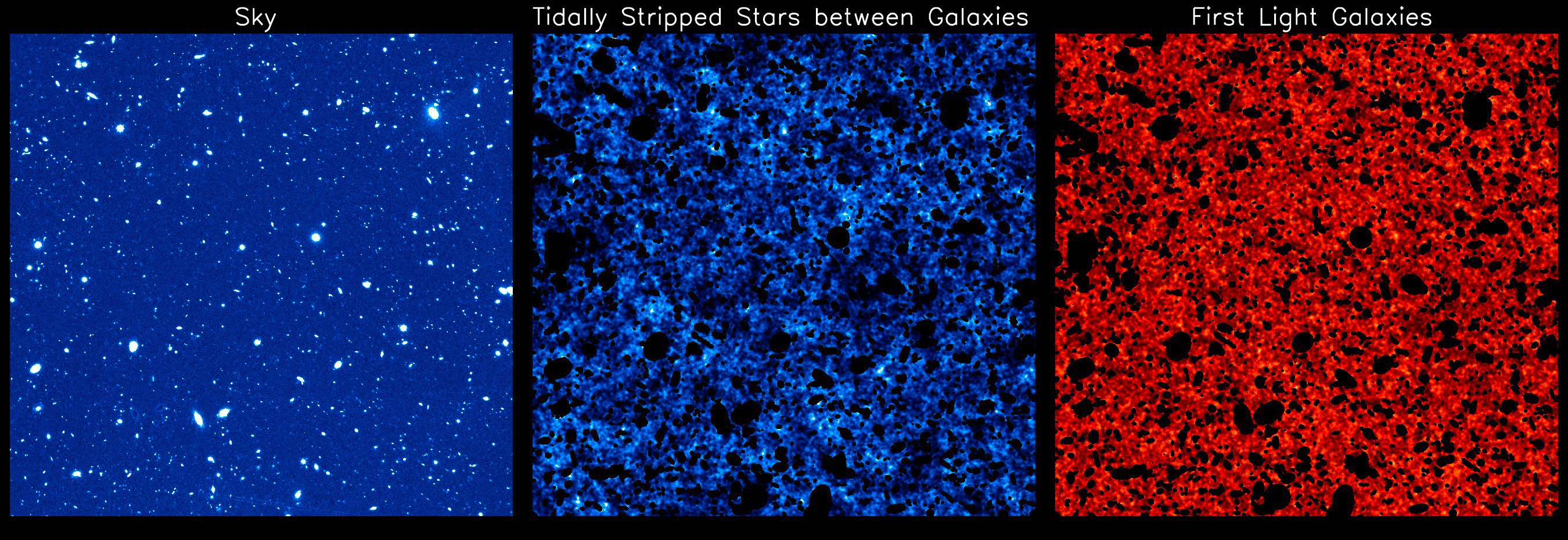 The three panels show different components of near-infrared background light detected by the Hubble Space Telescope in deep-sky surveys. The one on the left is a mosaic of images taken over a 10-year period. When all the stars and galaxies are masked, the background signals can be isolated, as seen in the second and third panels. The middle panel reveals "intra-halo light" from rogue stars torn from their host galaxies, and the panel on the right captures the signature of the first galaxies formed in the universe.